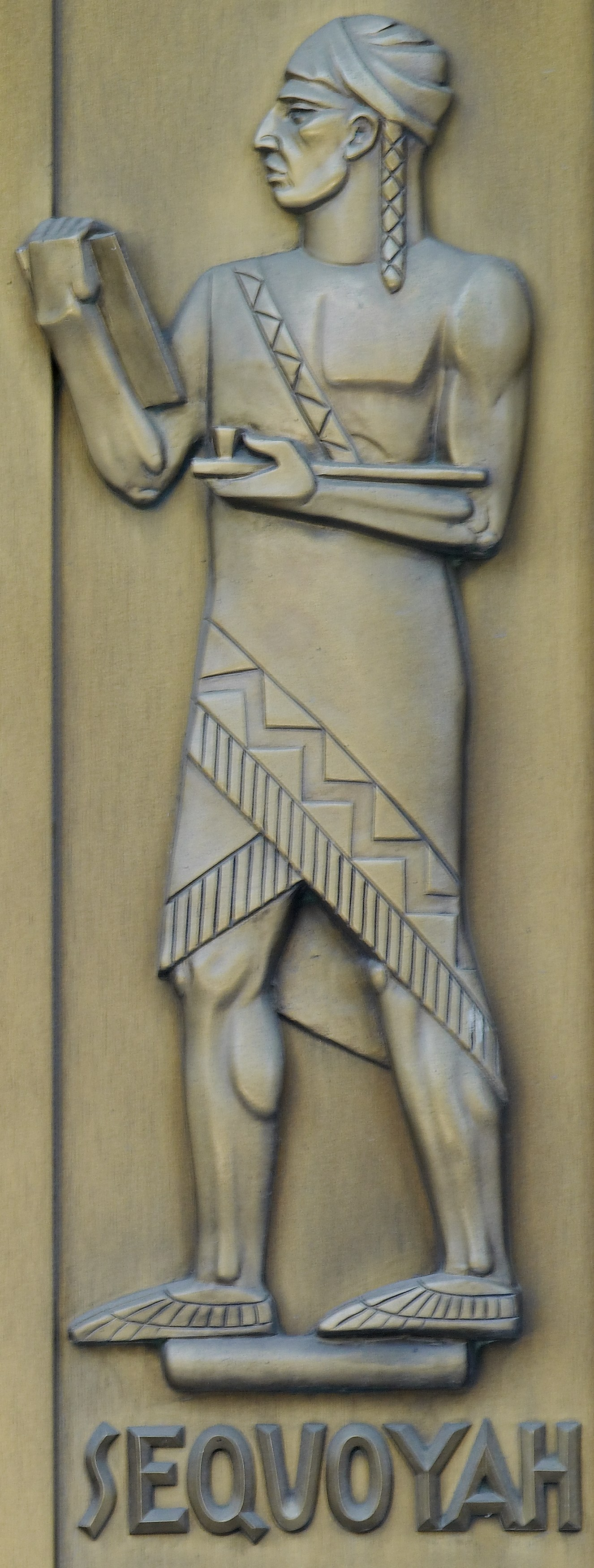 highly stylized portrayal of Sequoyah, sculpted bronze figure by Lee Lawrie. Door detail, east entrance, Library of Congress John Adams Building, Washington, D.C.